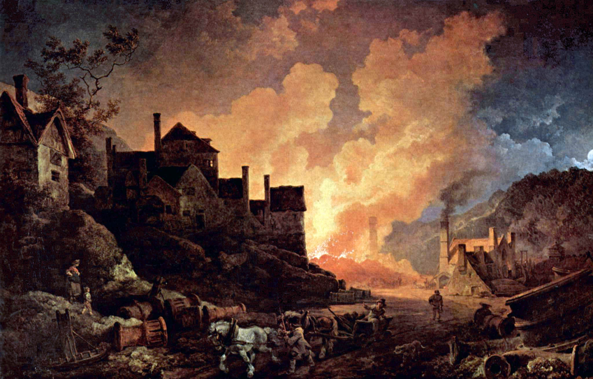 Depicted place: Madeley Wood Furnaces, Coalbrookdale